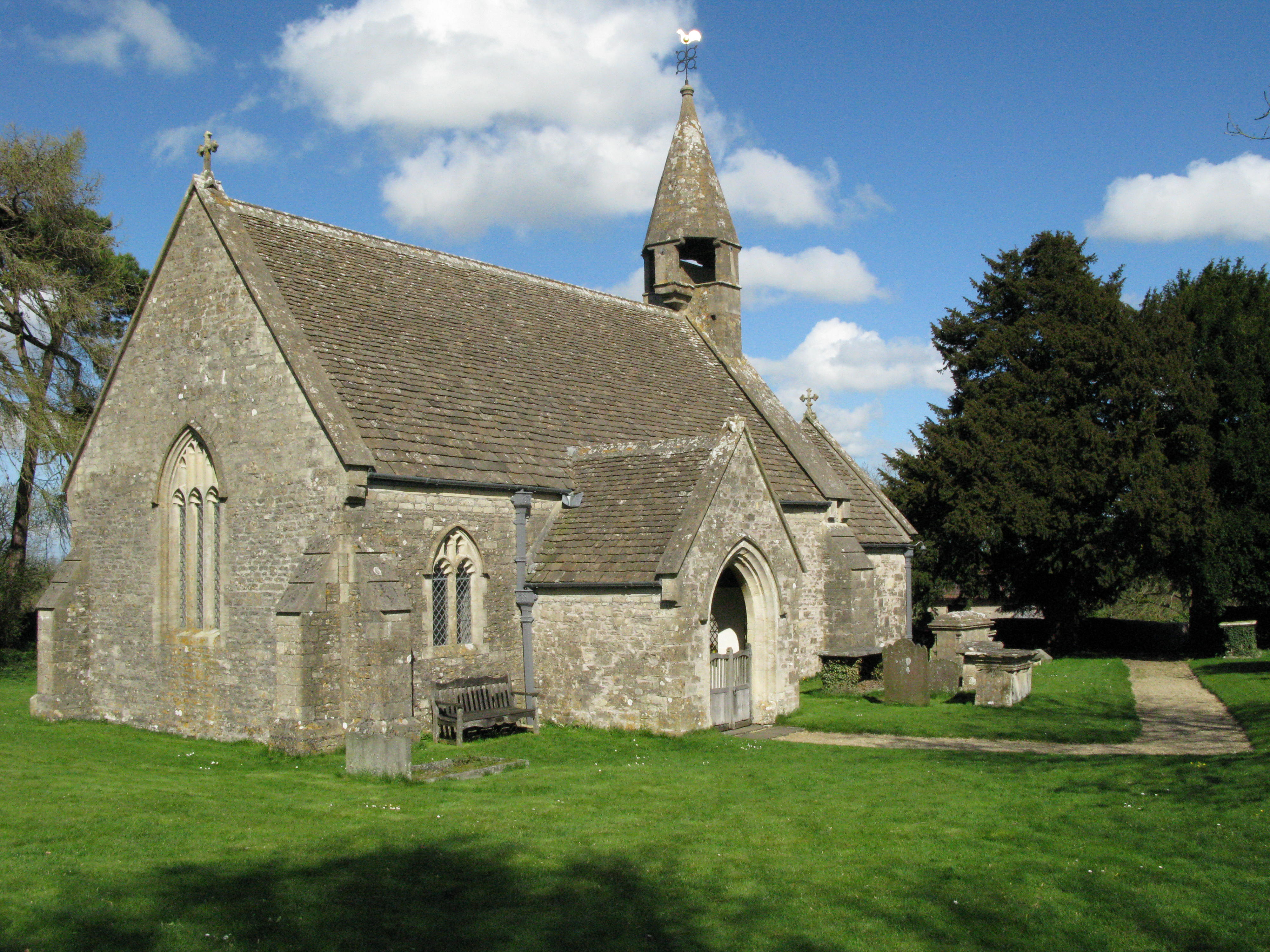 St James' parish church, West Littleton, South Gloucestershire, seen from the southwest